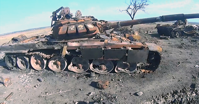 Busted T-72BA tank during August battle clashes in the War in Donbass.